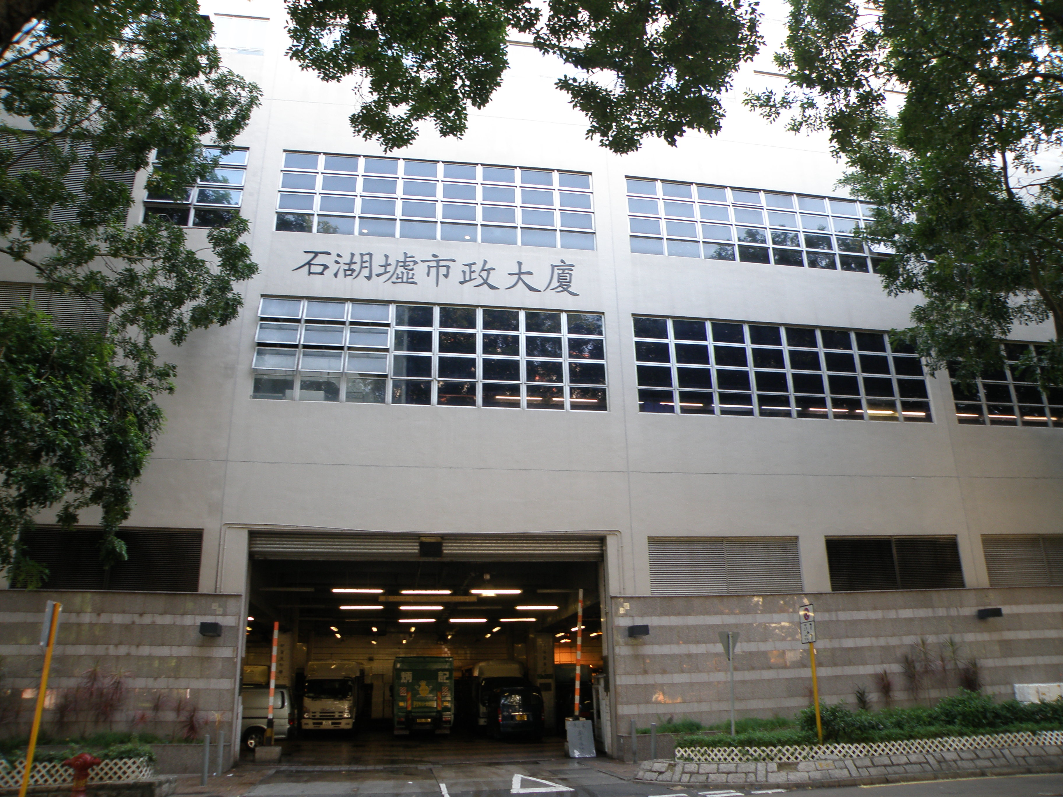 Shek Wu Hui Municipal Services Building in Sheung Shui, Hong Kong.